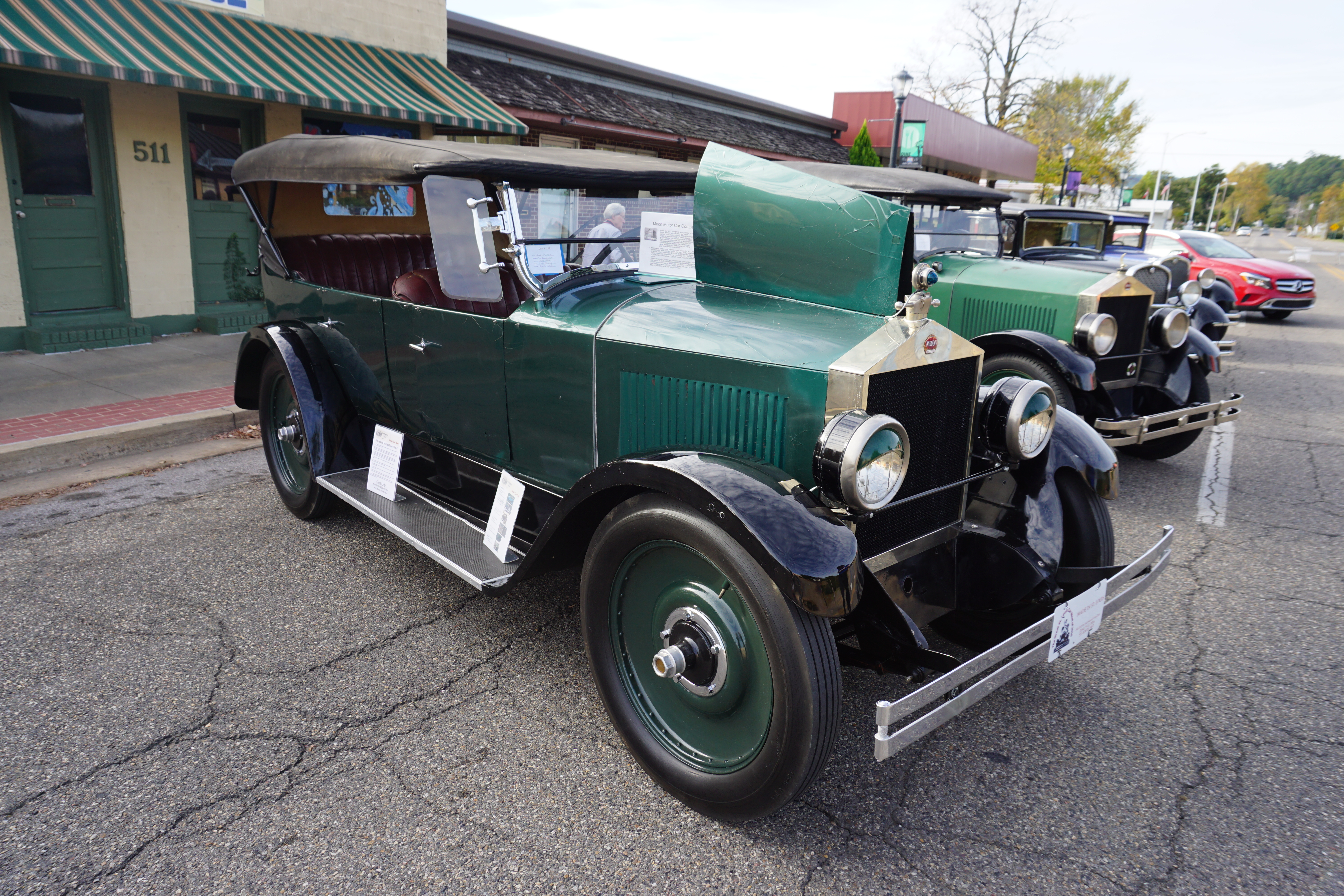 A 1923 Moon 6-40 at the Ouachita Arts Celebration in Mena, Arkansas (United States).